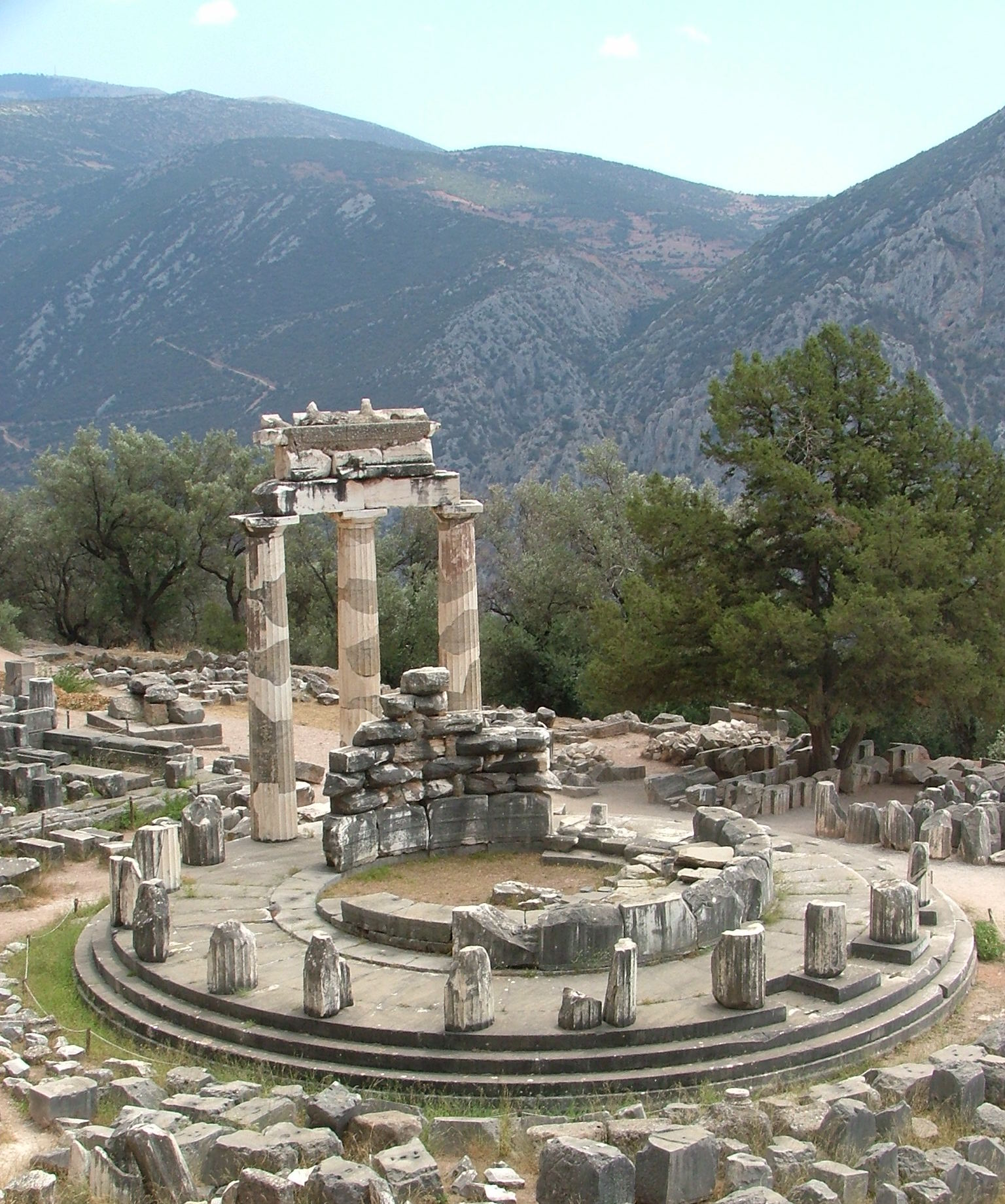 Tholos temple in Delphi, Greece